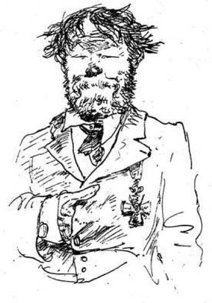 1978 caricature of Michael Wagmuller, by Friedrich August von Kaulbach